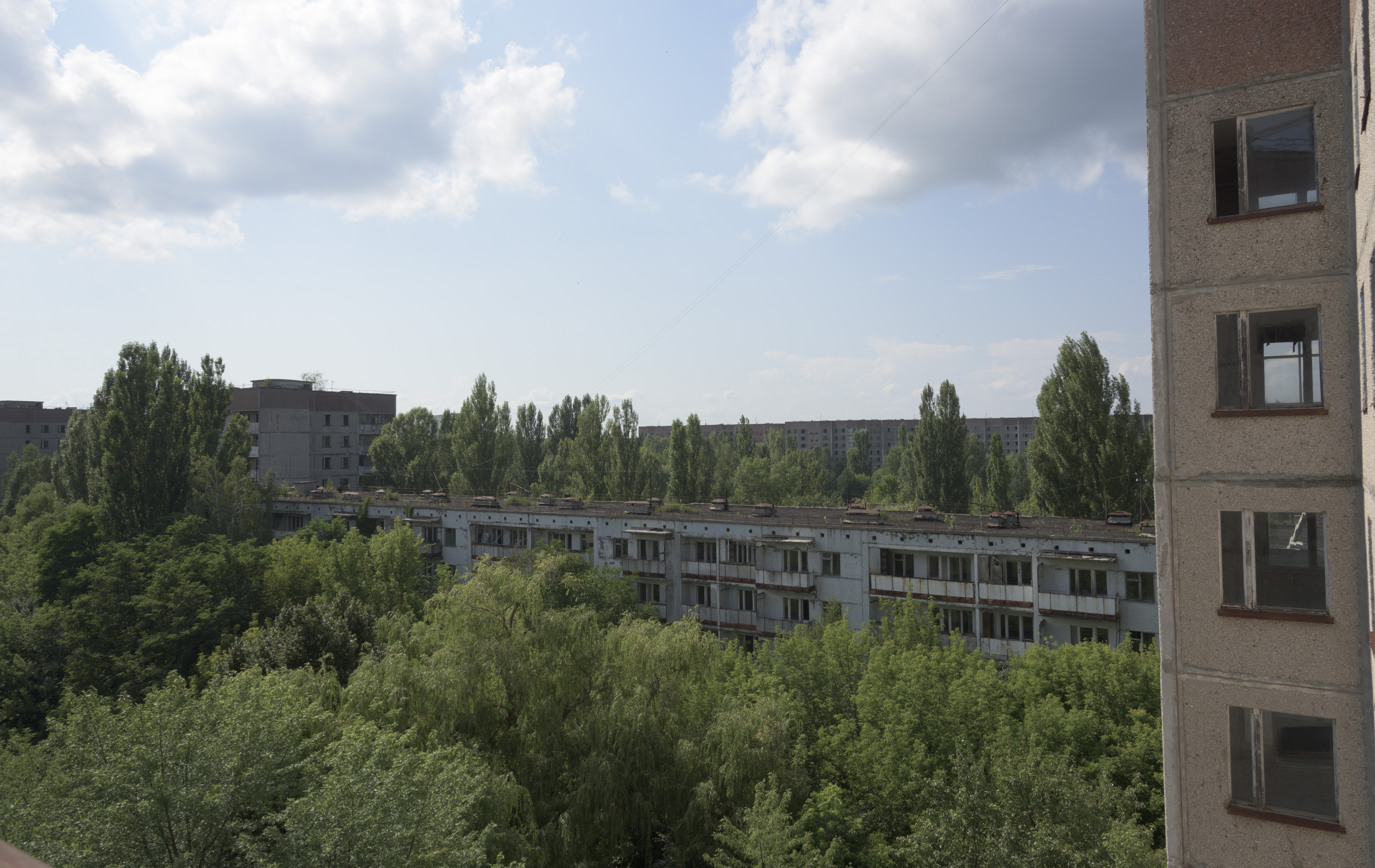 View from an abandoned apartment building in Pripyat, Ukraine.